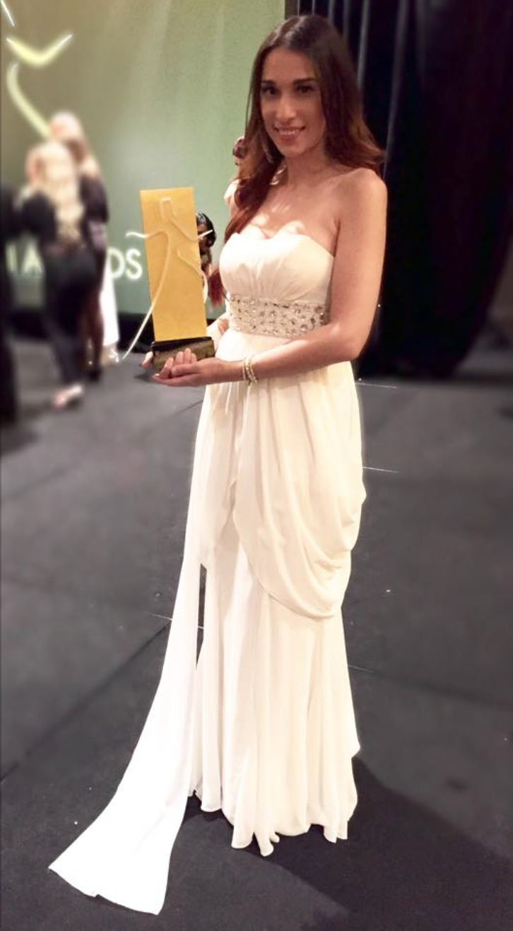 Emanuela Bellezza at Rumi Awards2015 in Las Vegas, winning "Best Artist Europe" and "Best Duet Singer" award.